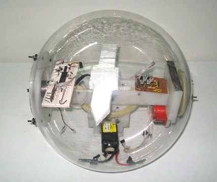 Picture of a pendulum-drive spherical mobile robot. The robot is made of a transparent spherical shell serving as the body of the robot and an internal driving unit (IDU) that enables the robot to move. A white arrow is placed inside the spherical shell to determine the position and orientation of the robot via a vision-based algorithm.